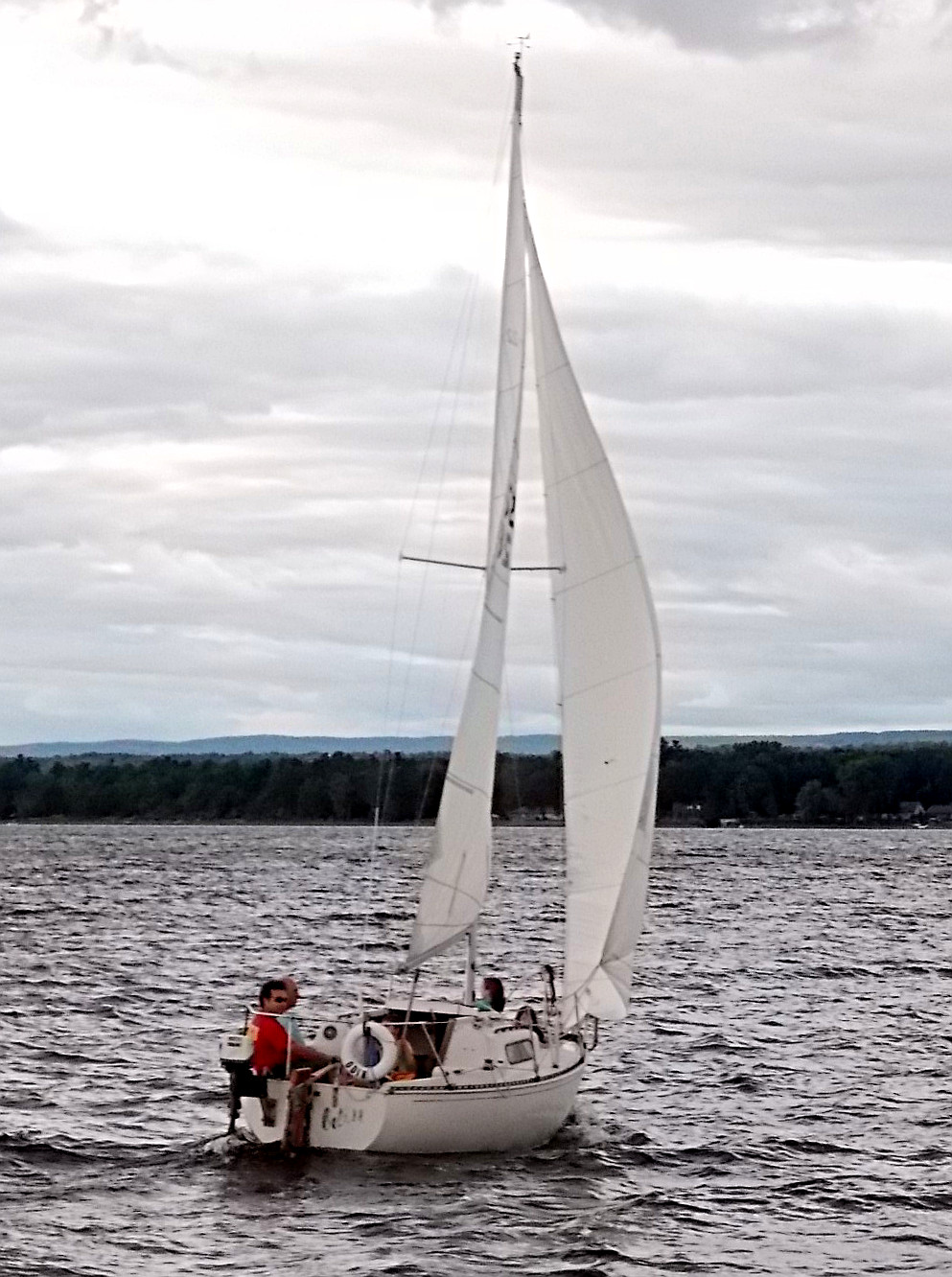 CS 22 sailboat on Lac Deschênes, part of the Ottawa River, Ottawa, Ontario, Canada